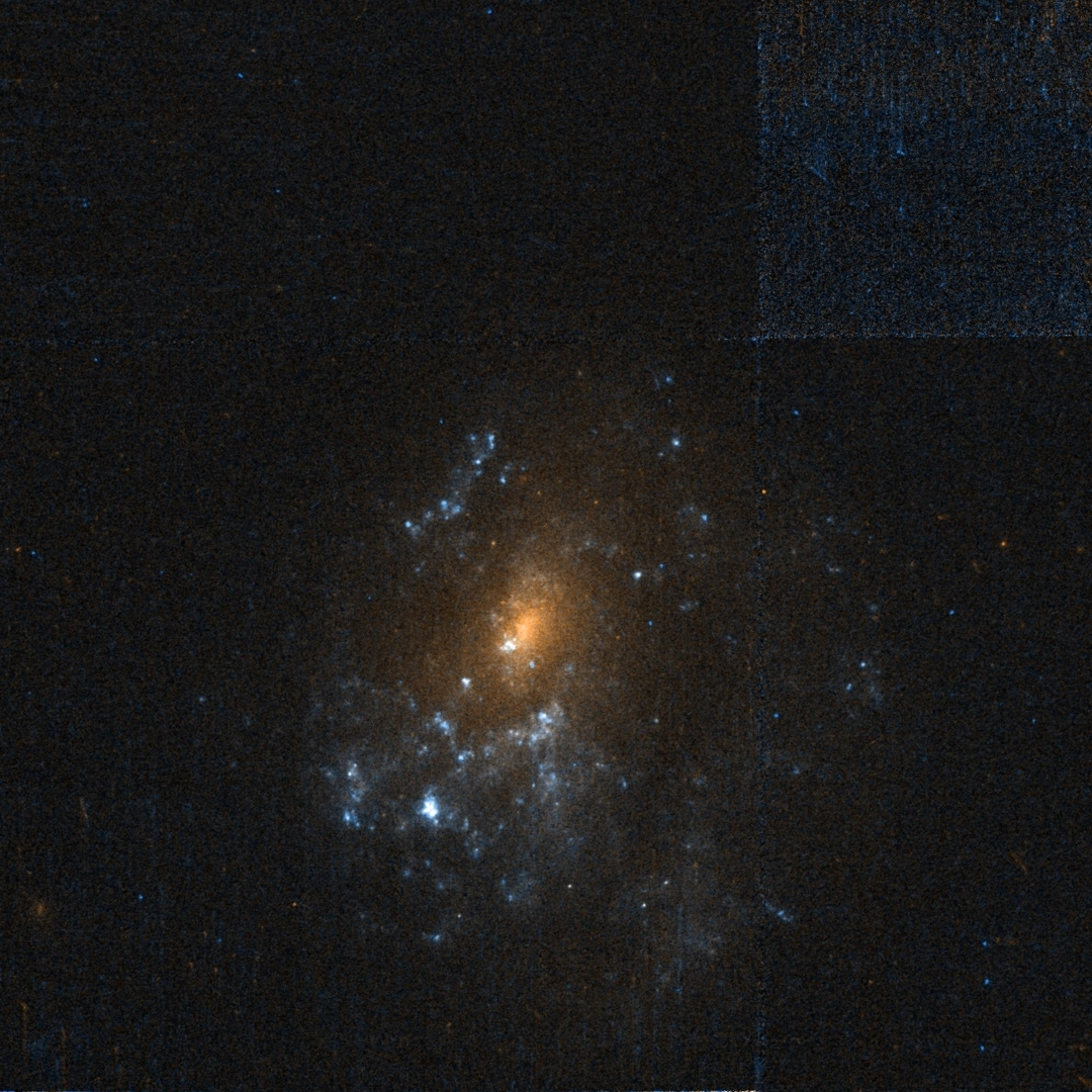 Color rendering is done by by Aladin-software (2000A&AS..143...33B.)